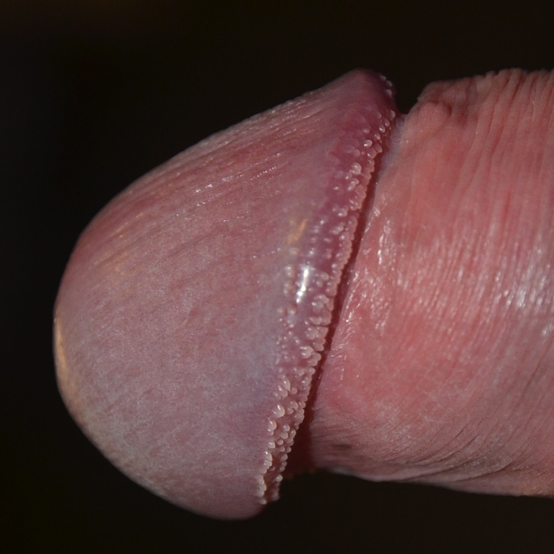 Corona of glans penis with pearly penile papules. Found on some uncircumcised penises.